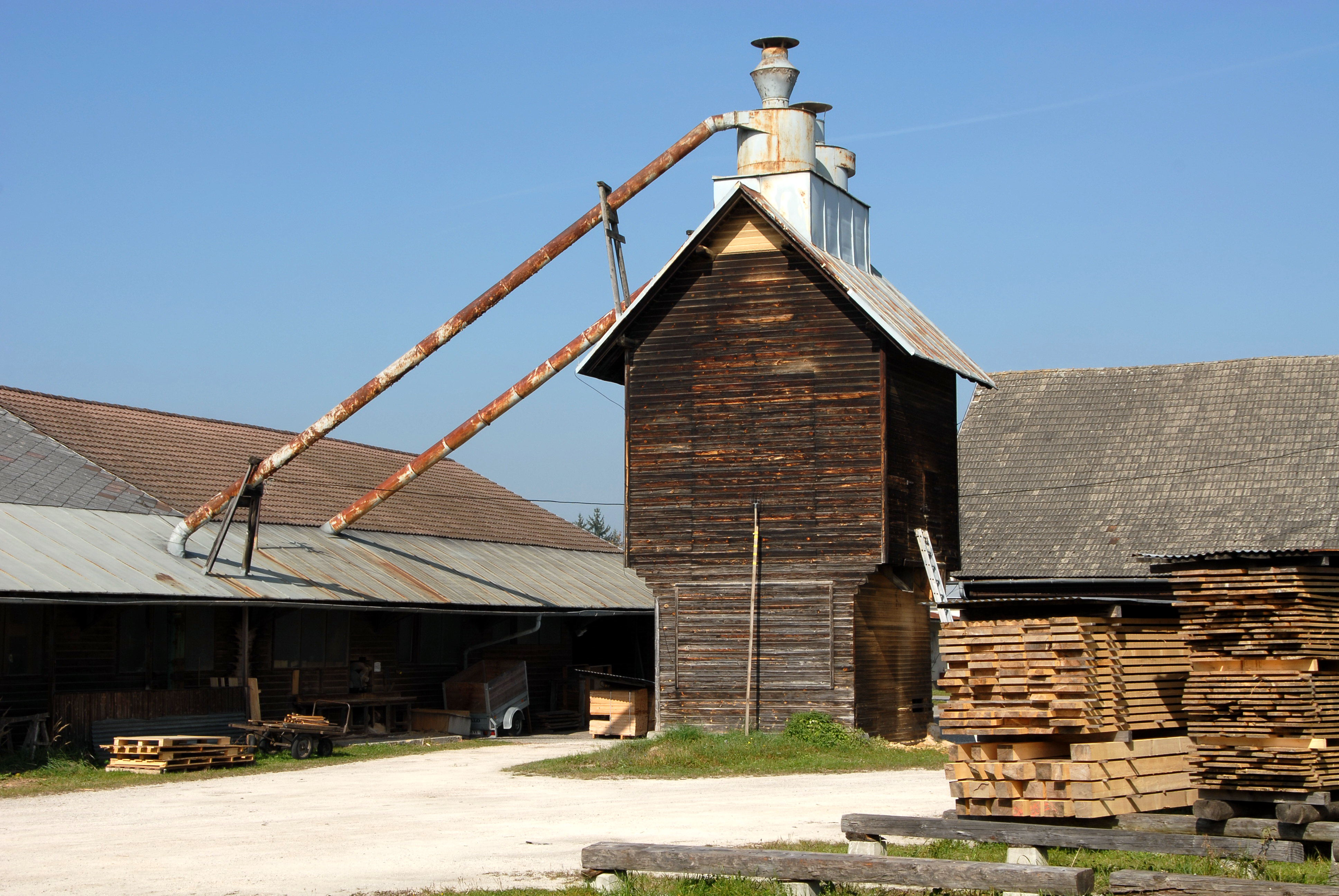 Silo for saw mill waste on a facility terrain in Klagenfurt, Carinthia, Austria